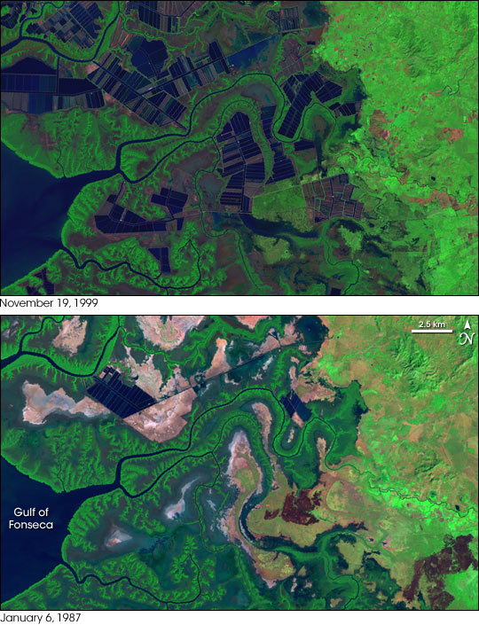 Two false-color Landsat images showing the growth of the shrimp farming industry in Honduras from 1987 to 1999 and the corresponding removal of mangrove swamps.